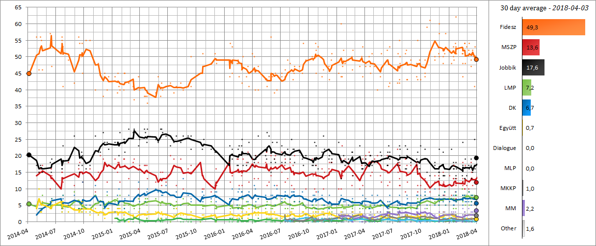 Graph showing a 30 day poll average trendline of the Hungarian opinion polls towards the election in 2018